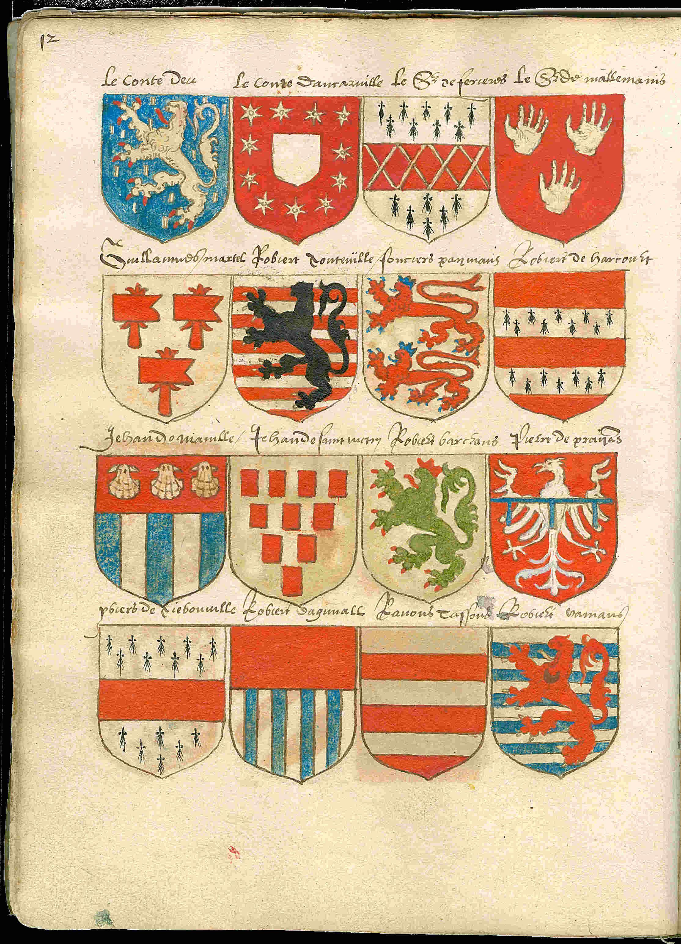 Page 12 from a copy of the Beyeren armorial / Wapenboek Beyeren from ca. 1600. The original Beyeren armorial from 1405 can be viewed at the website of the KB